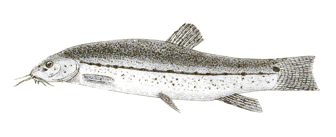 The species names / identity need verification - original names from plate are included here. The original plates showed the fishes facing right and have been flipped here. Lepidocephalichthys berdmorei